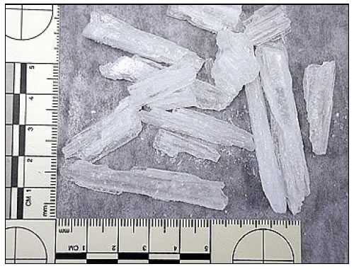 From DEA website, work of the US Federal Government and thus ineligible for copyright